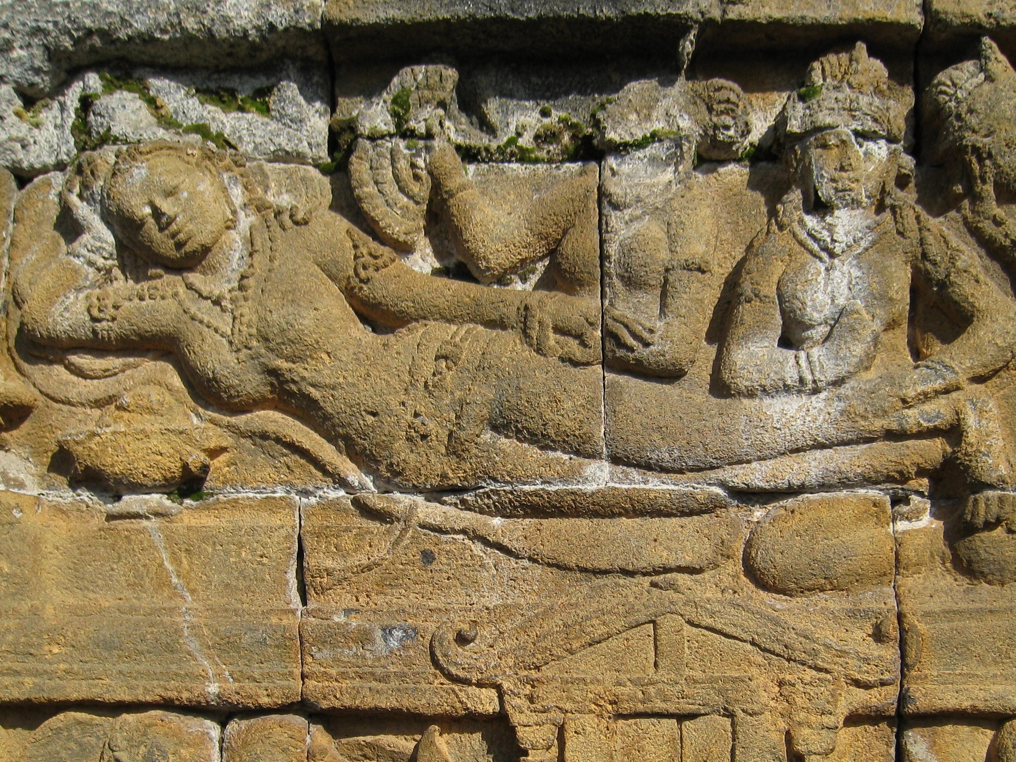 Lalitavistara, Queen Mahamaya